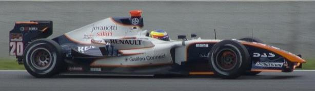 Mike Conway driving for Trident Racing at the Circuit de Nevers Magny-Cours round of the 2008 GP2 Series season.